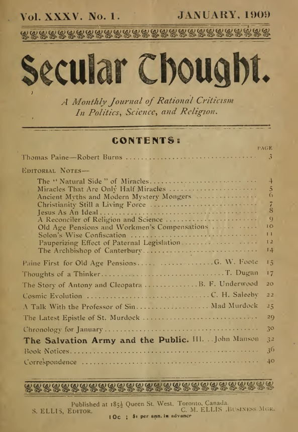 Cover image of "Secular Thought" (Toronto), January 1909 issue